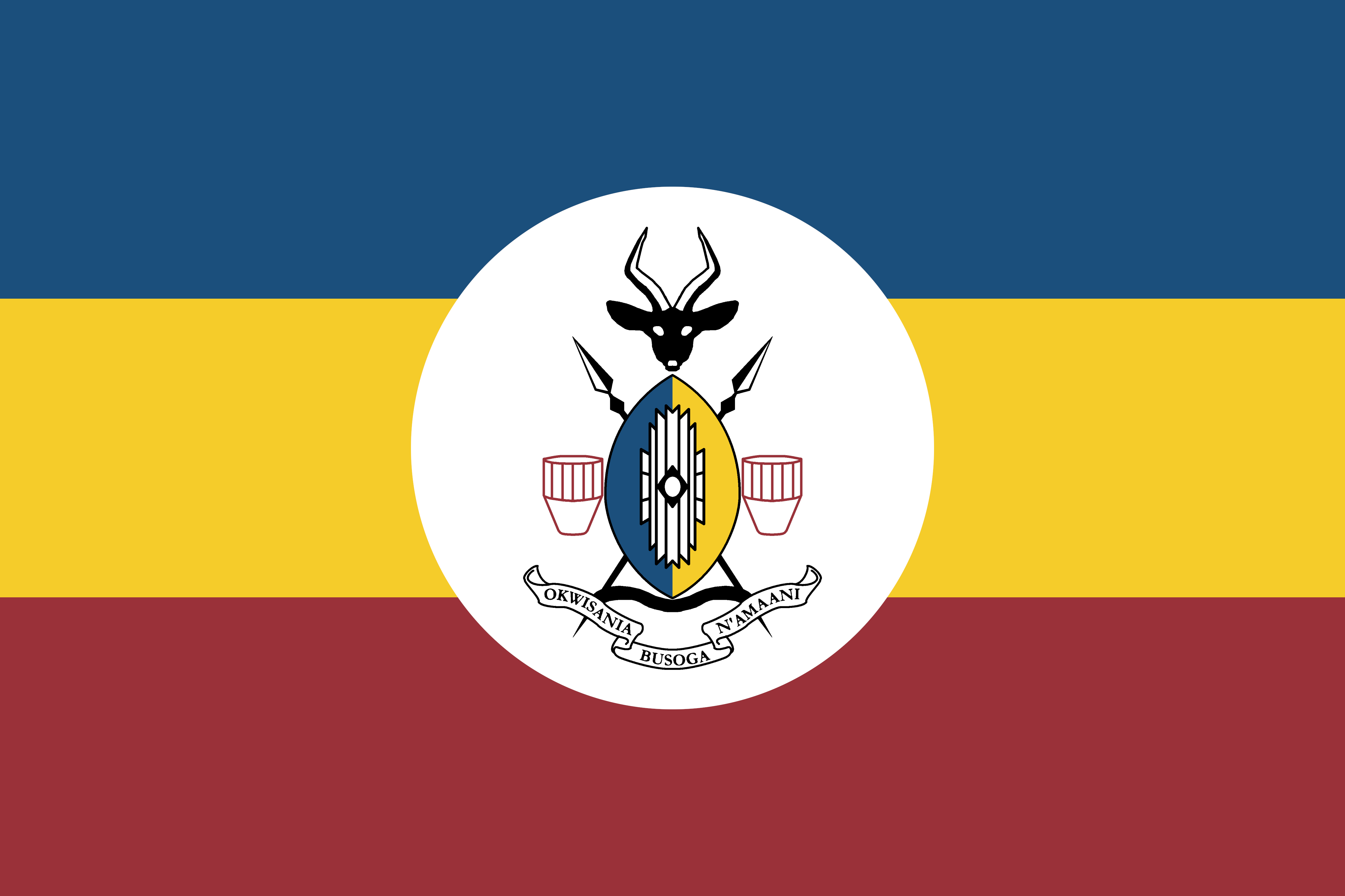 Royal standard of the flag of Busoga, used ceremonially.